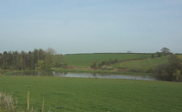 Pool near Stockley Park